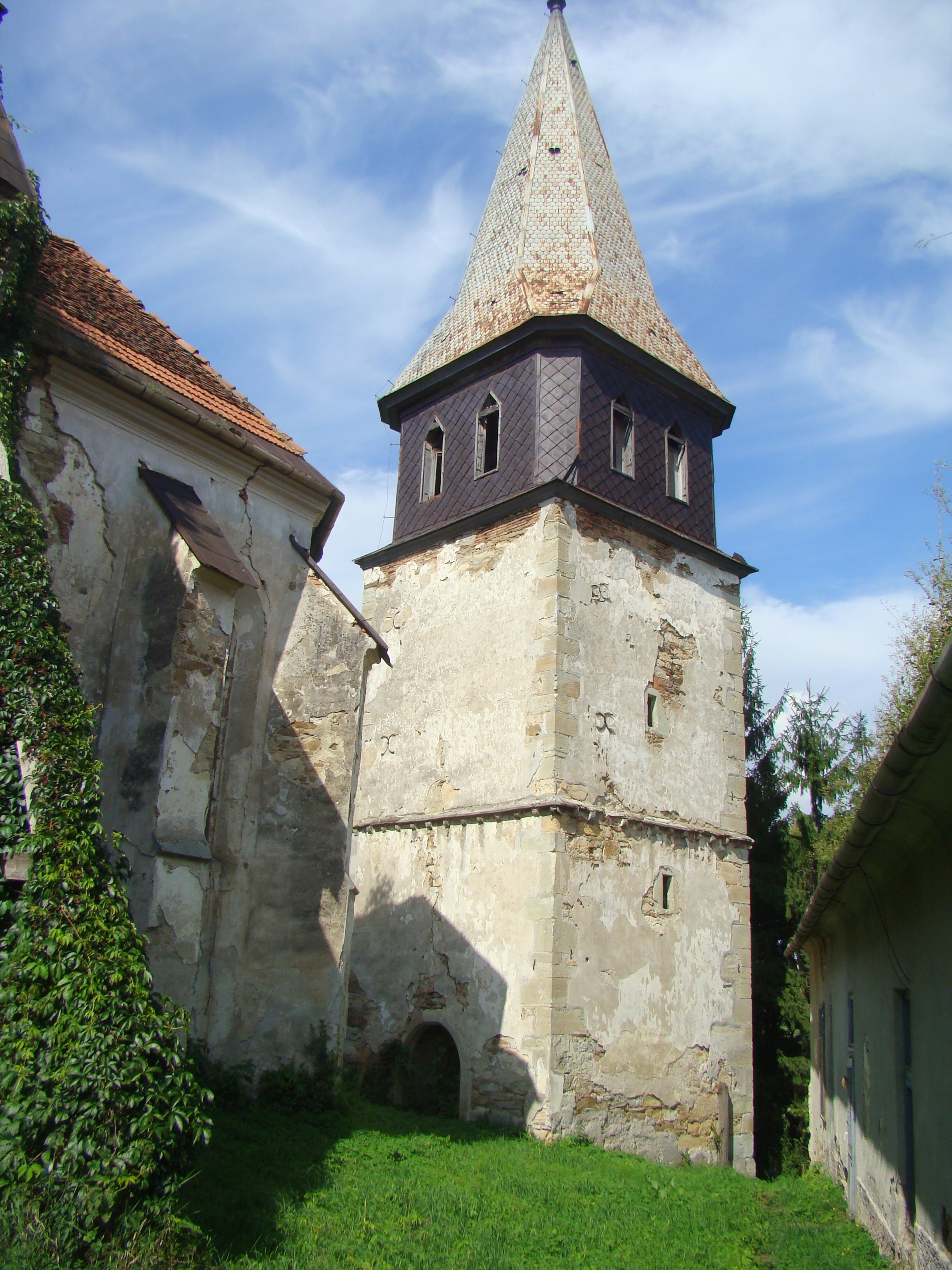 Lutheran church in Vermeș, Bistrița-Năsăud county, Romania